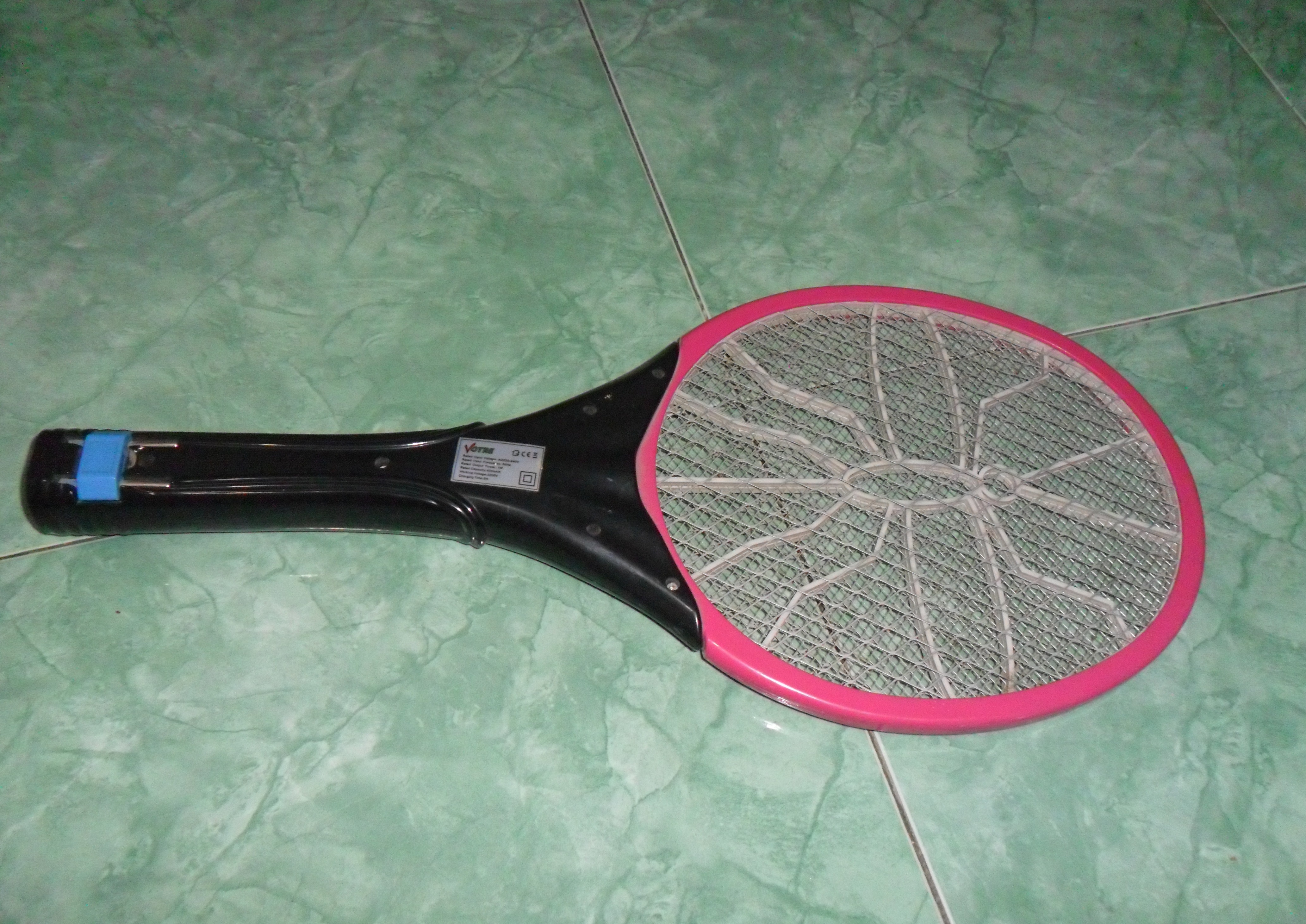 Mosquito racket